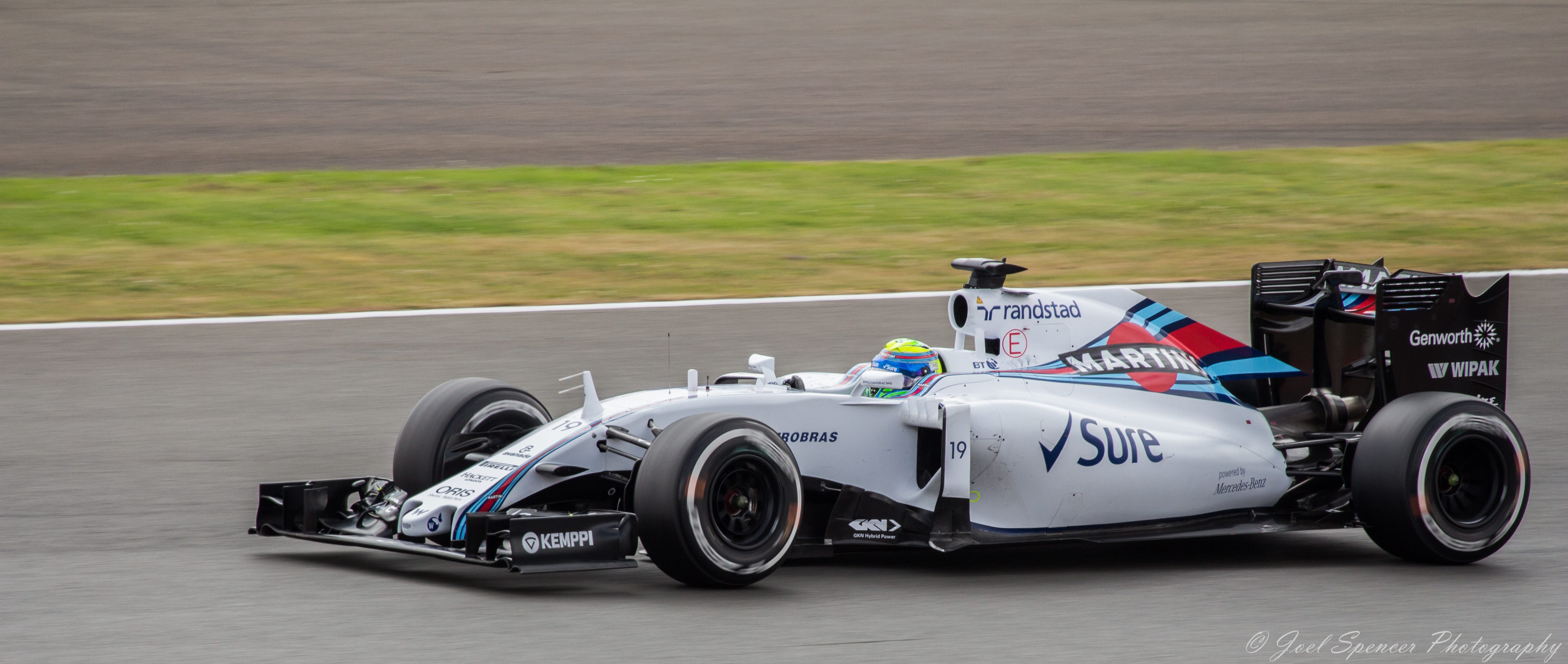 Felipe Massa at the 2015 British Grand Prix